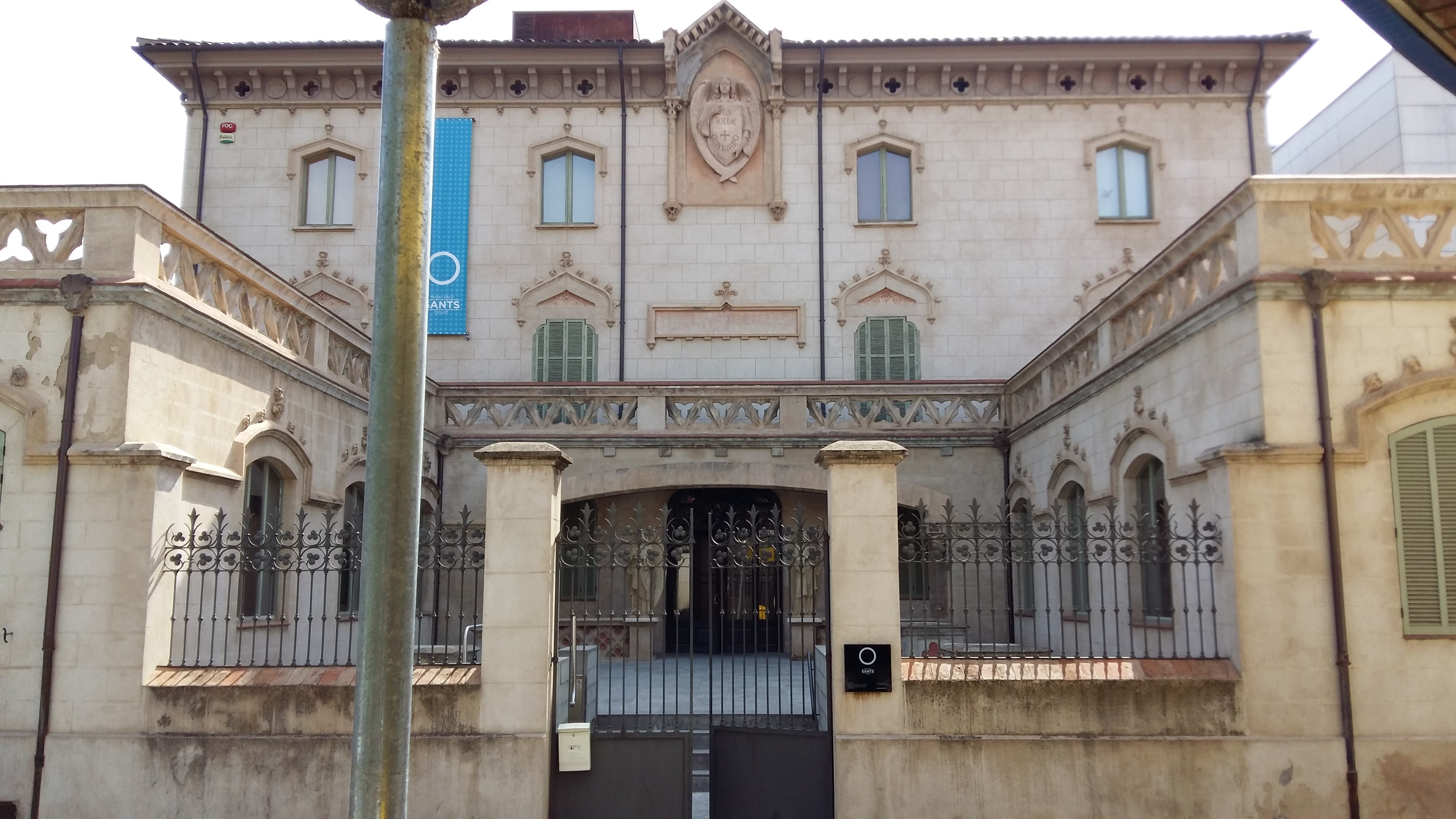 Museum of Saints, Olot, Spain (former factory „L’Art Cristià“